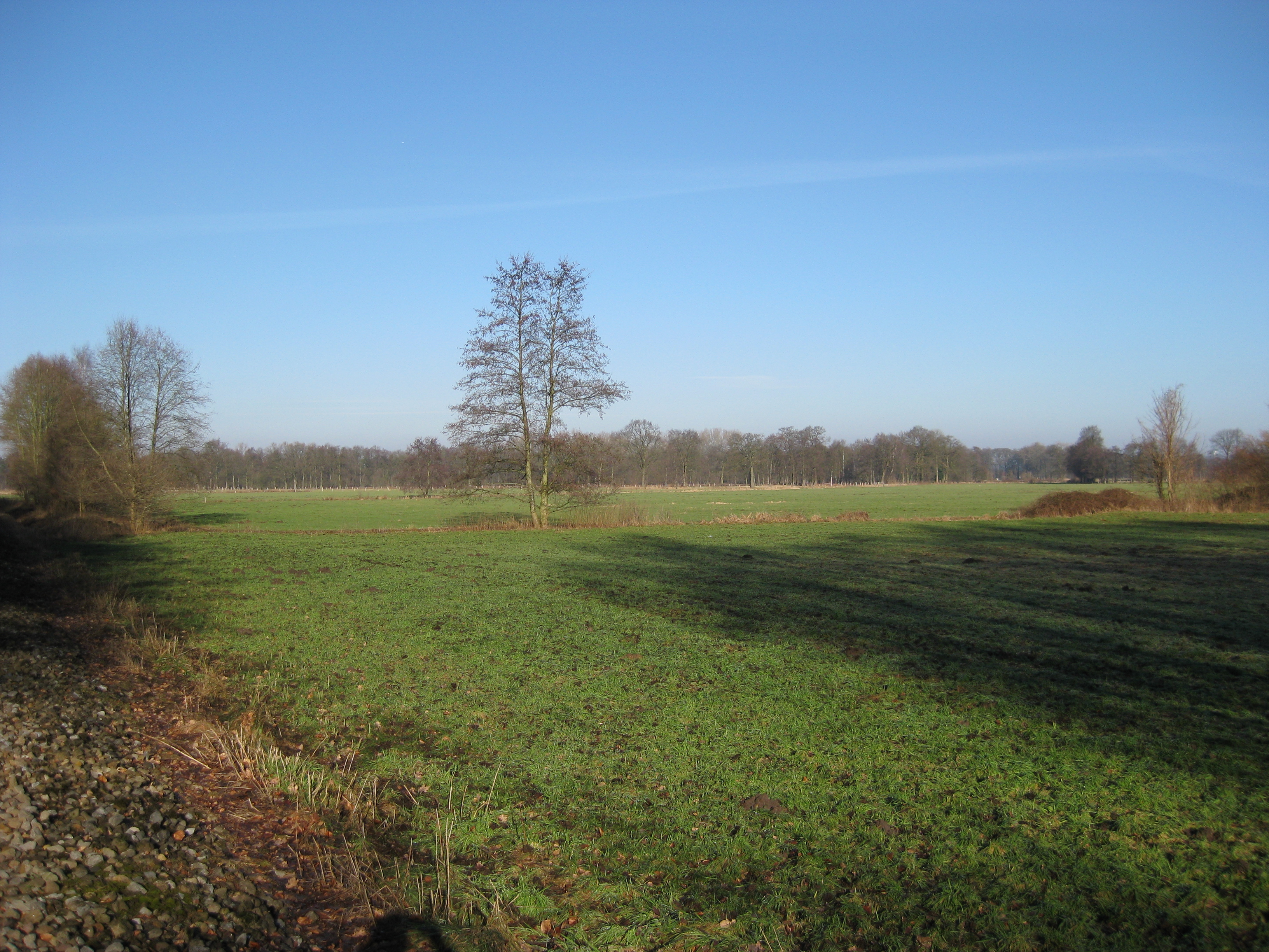 Nature reserve Versmolder Bruch near Versmold